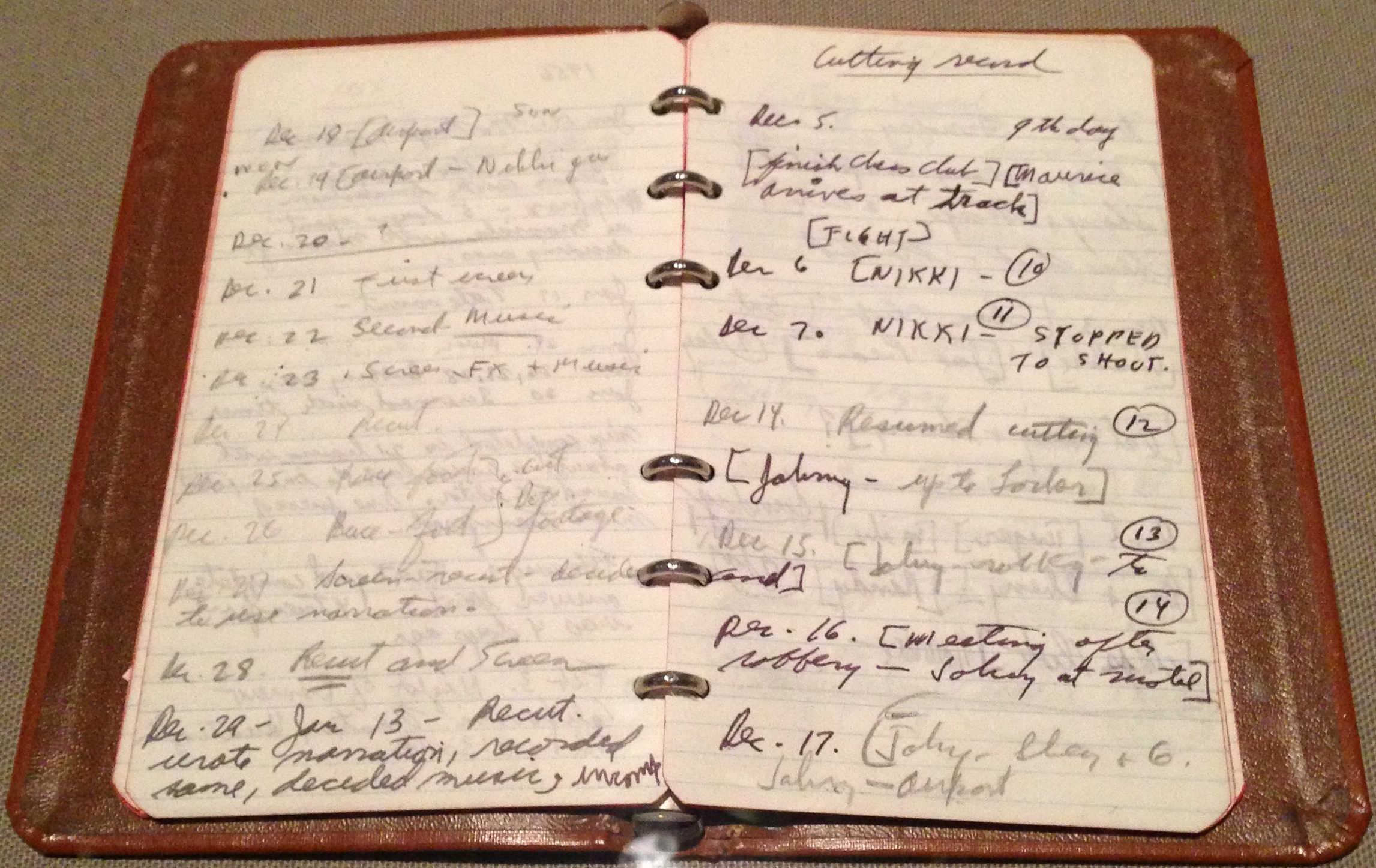 Stanley Kubrick exhibit at Los Angeles County Museum of Art.